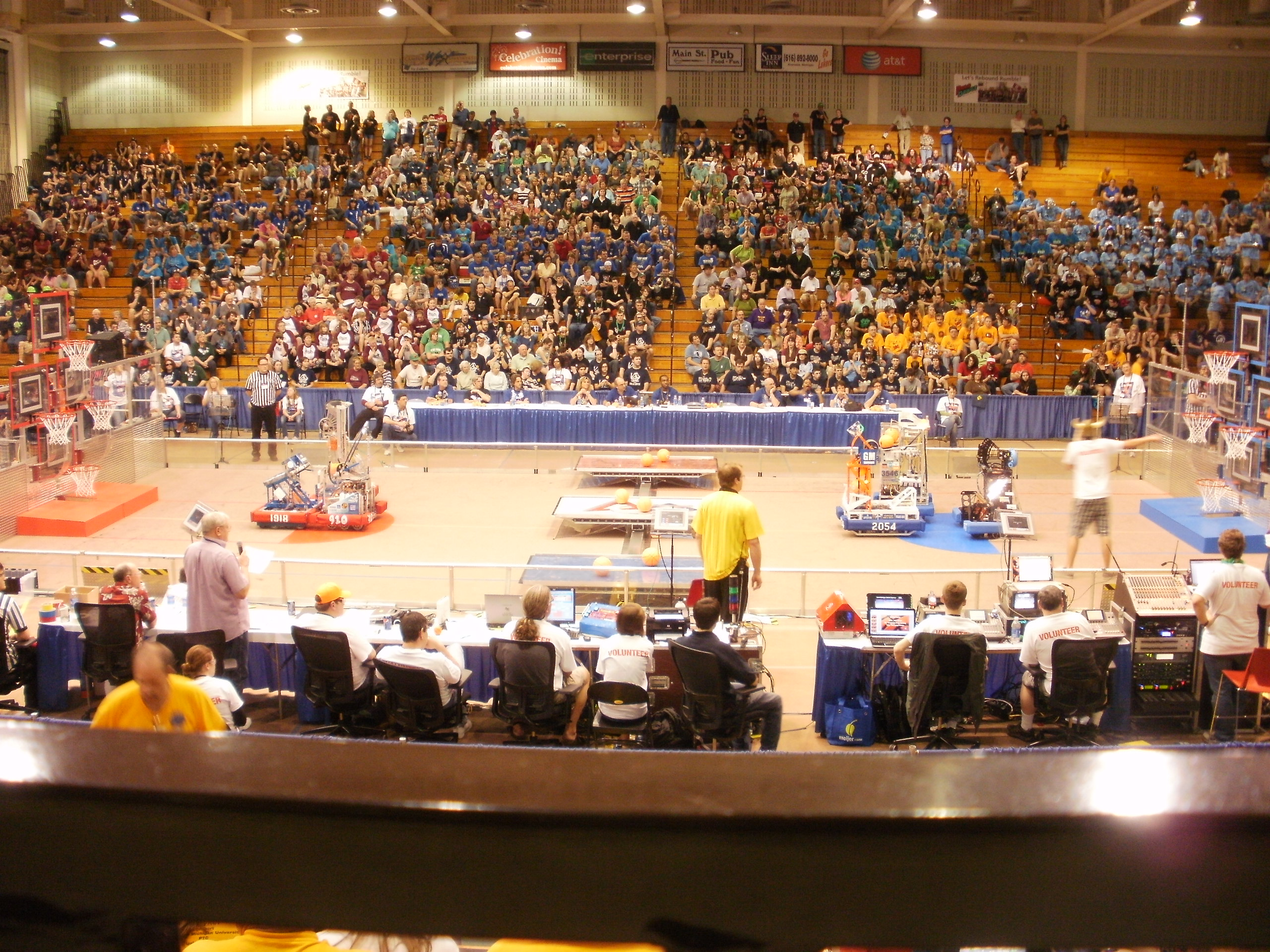 2012 FIRST Robotics Competition game Rebound Rumble field at the beginning of a match